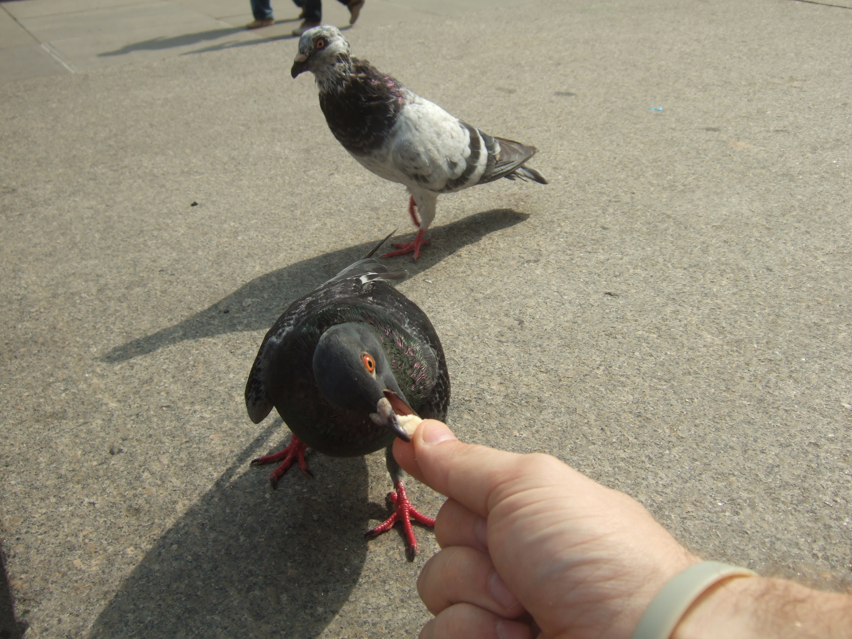 Feral Rock Dove eating out of a human hand in New York City.